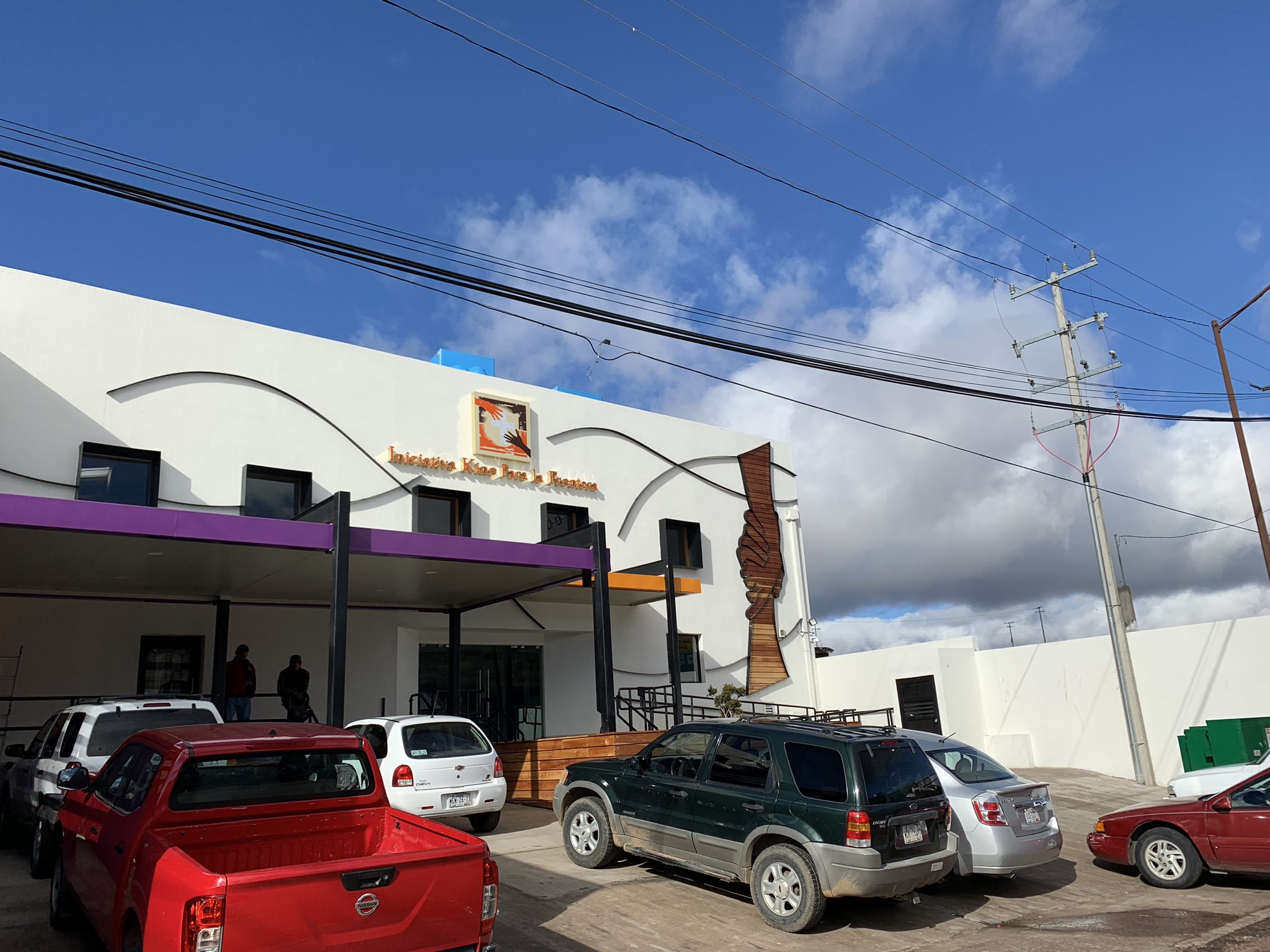 There are wonderful organizations like @KinoBorder that are providing humanitarian aid to families, but our federal government - this White House - is failing. It doesn’t need to be this way.